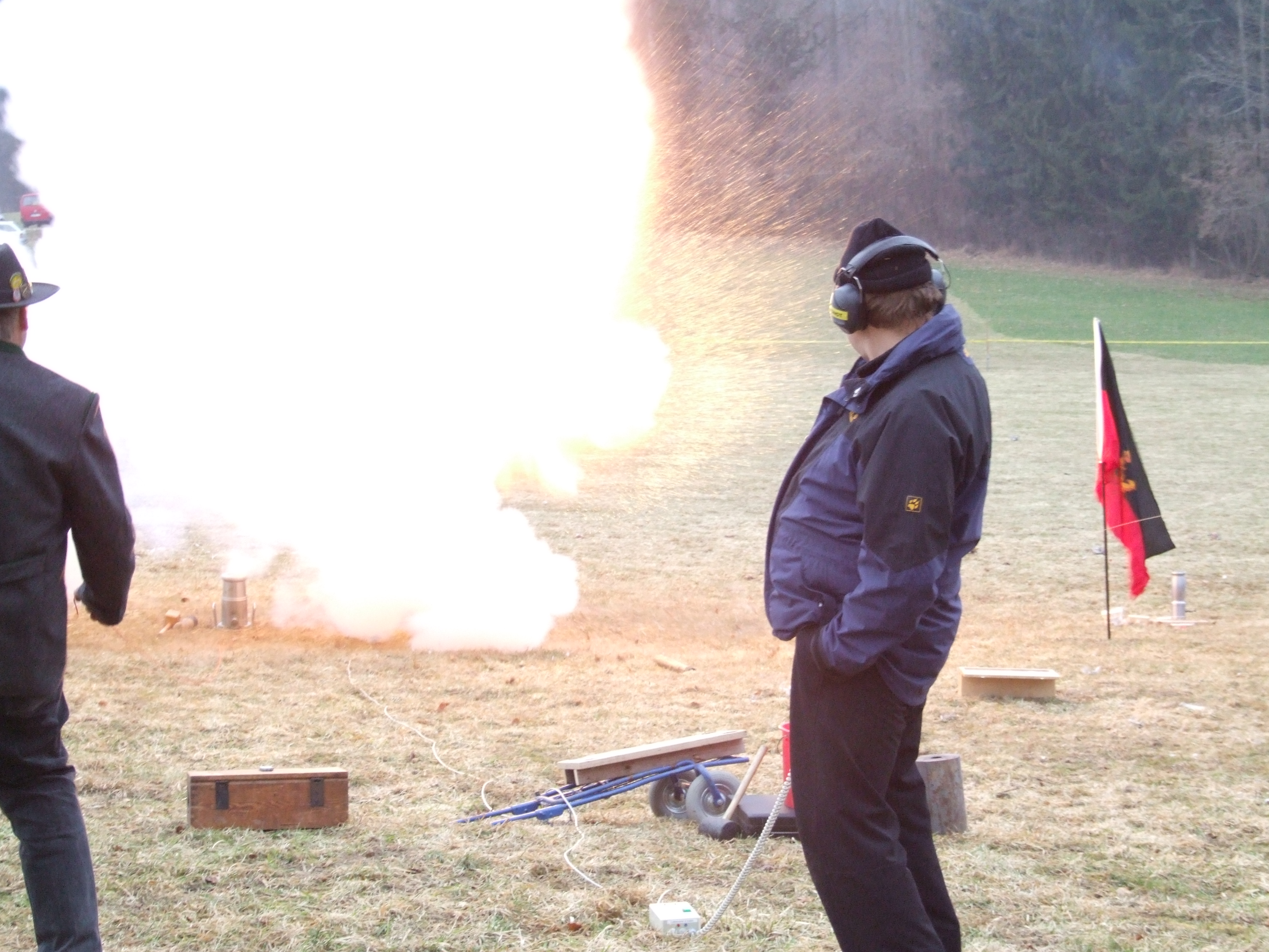 salute gun firing 2. Seen in Nußdorf a part of Überlingen, Germany